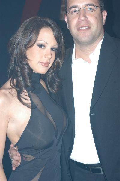 McKenzie Lee, Christopher G. Dancel at McKenzie Lee and Lexxi Tyler birthday party, May 25 2006